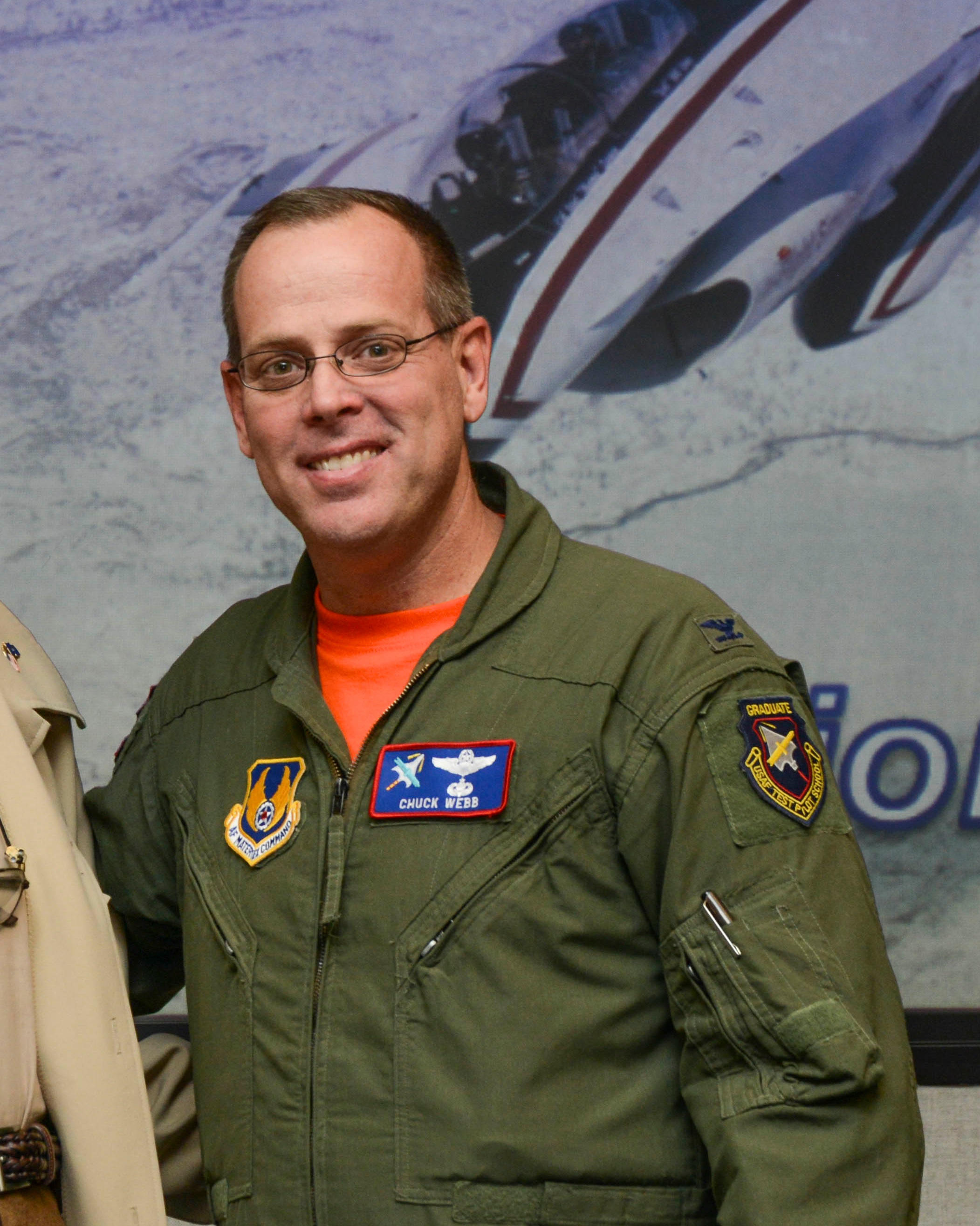 USAF Test Pilot School Commandant Colonel Charles "Spider" Webb. Cropped version of U.S. Air Force photo by Rebecca Amber. See 3rd photo on the web page URL provided in release rights